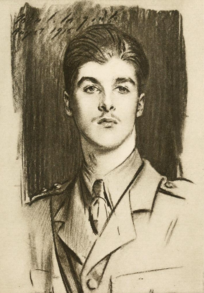 Image of Edward Wyndham Tennant (facing page 64) from For remembrance: soldier poets who have fallen in the war